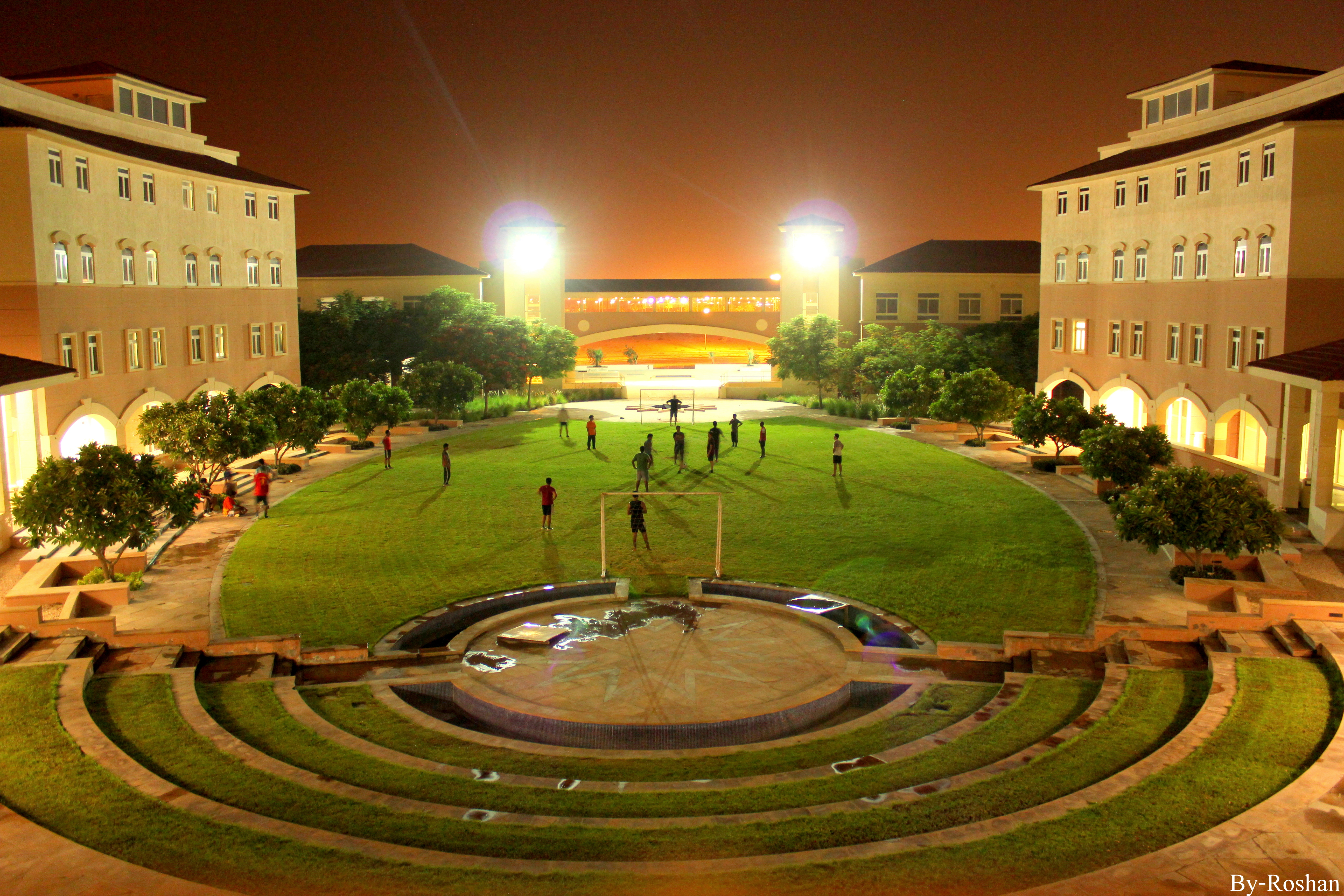 Its a night view of institute's campus, students are playing football. This photograph of IMT Dubai Campus was clicked by Roshan Jain (Class of 2015), more of his works can be seen by visiting